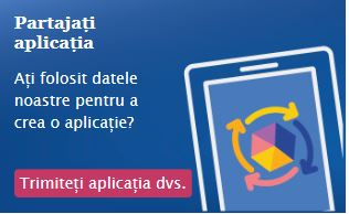 Screenshot from EUODP